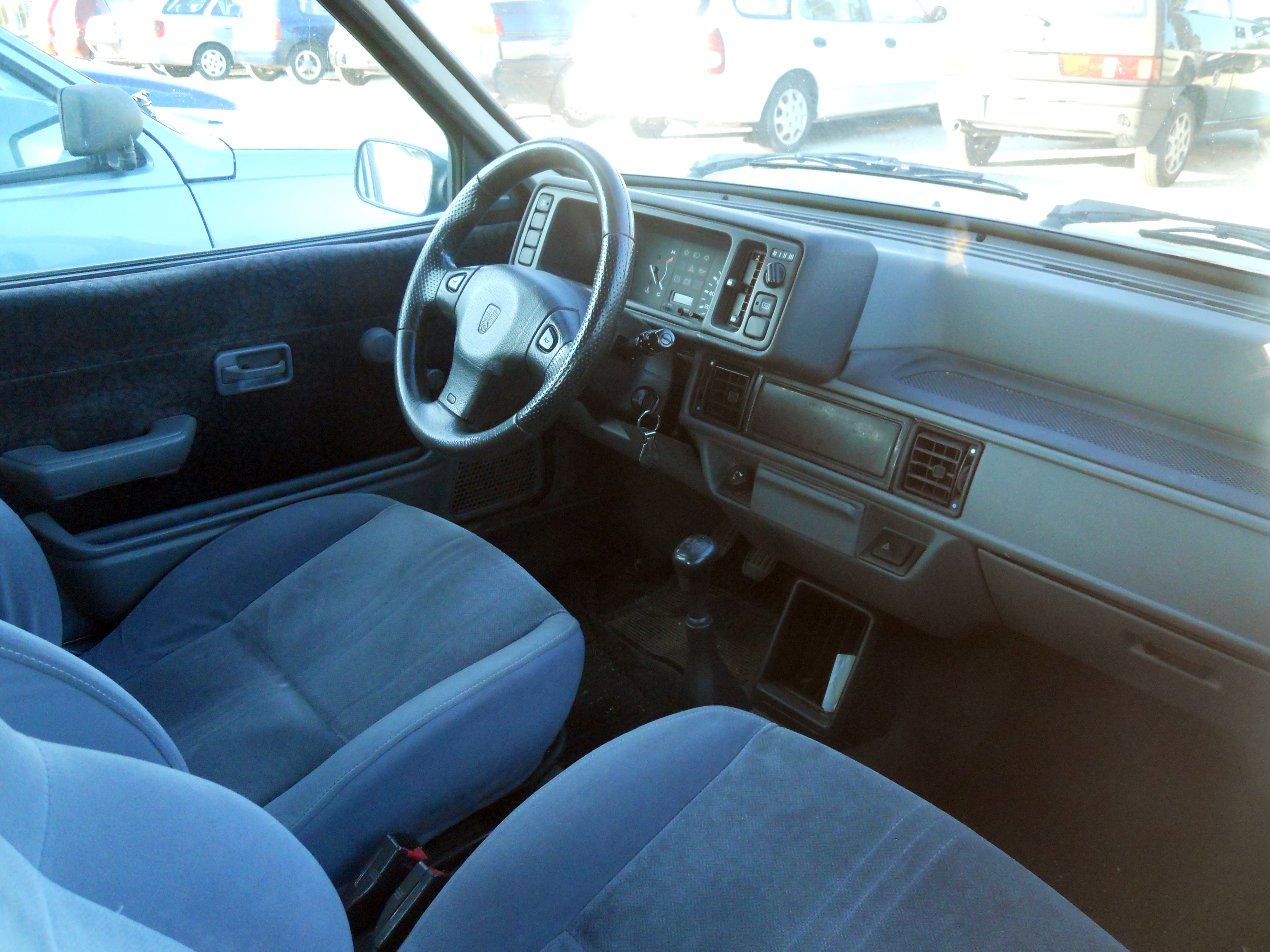 A Rover 100 Kensington SE in Giulianova, Italy. Registred in November 1996 in Abruzzo; it uses a 1119 cm³, 44 kW, Euro 2 petrol engine.